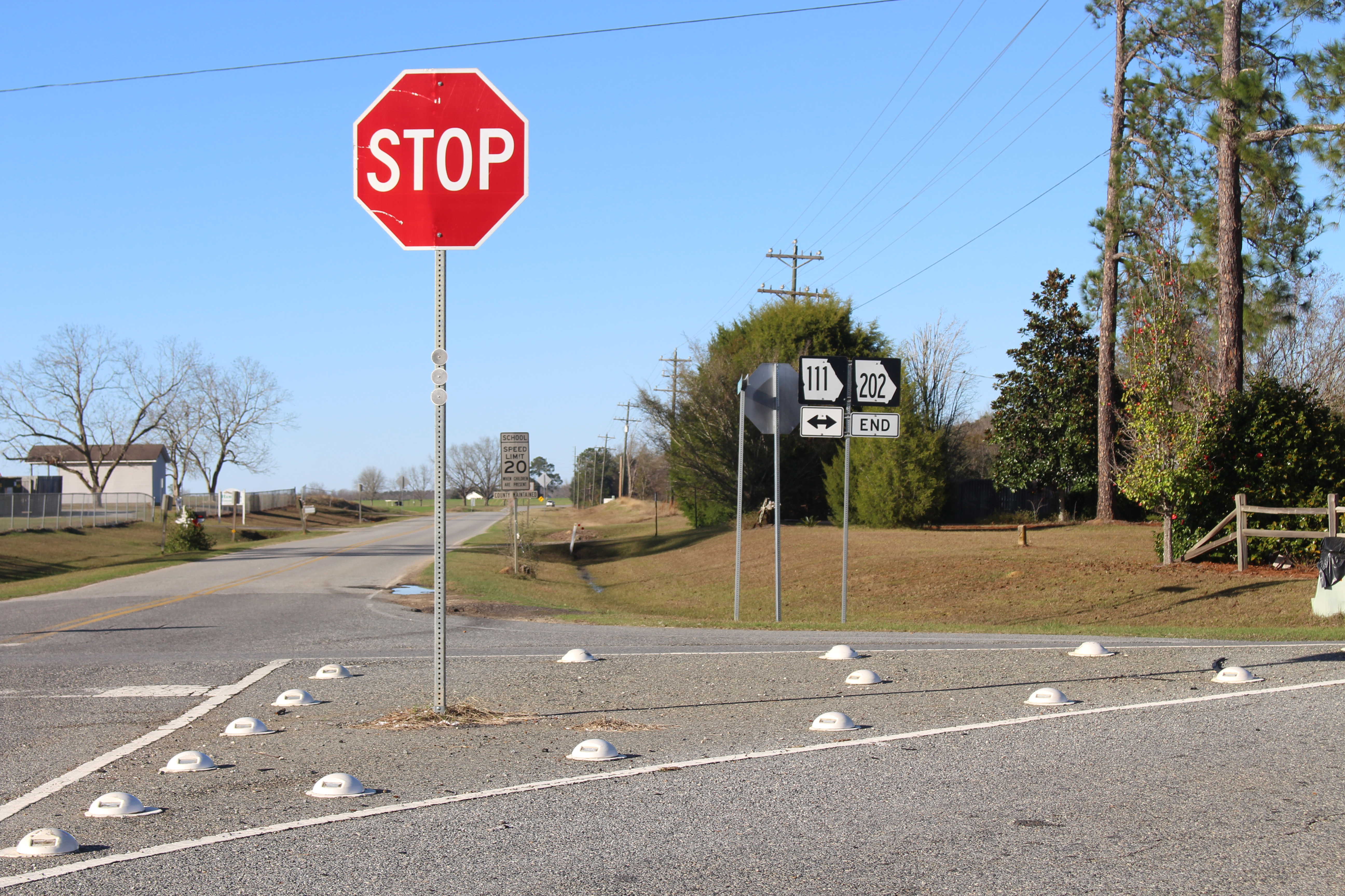 GA202NB terminus at GA111, Colquitt County, Georgia